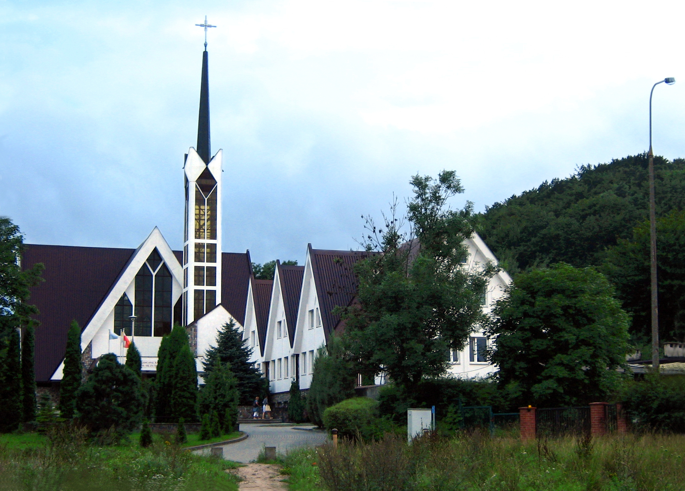 VII Dwór district in Gdańsk. St. Stanislaus Kostka parochy and church and hills in Oliva Forest.